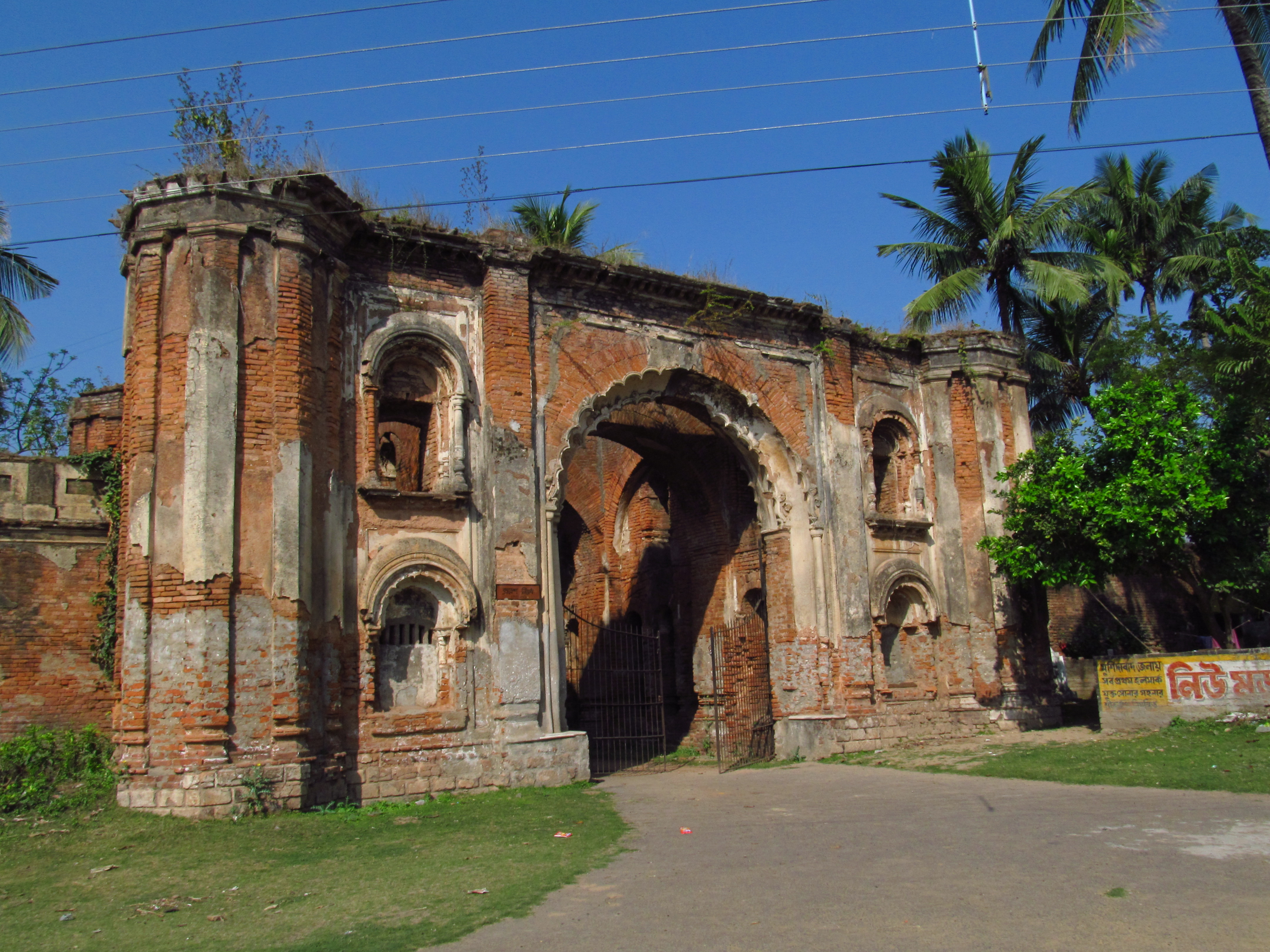 Namak Haram Deori at Murshidabad